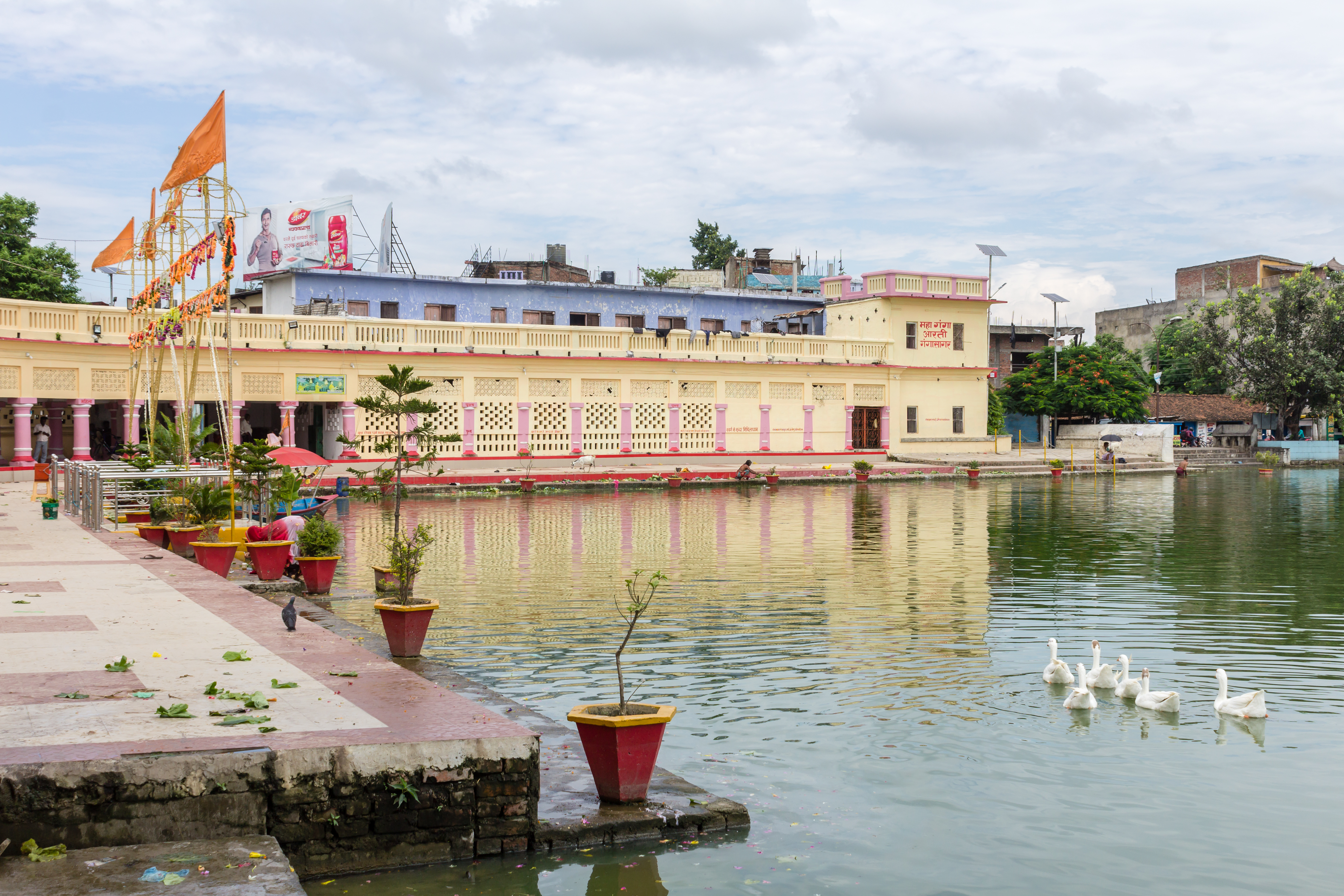 Ganga Sagar, Janakpur